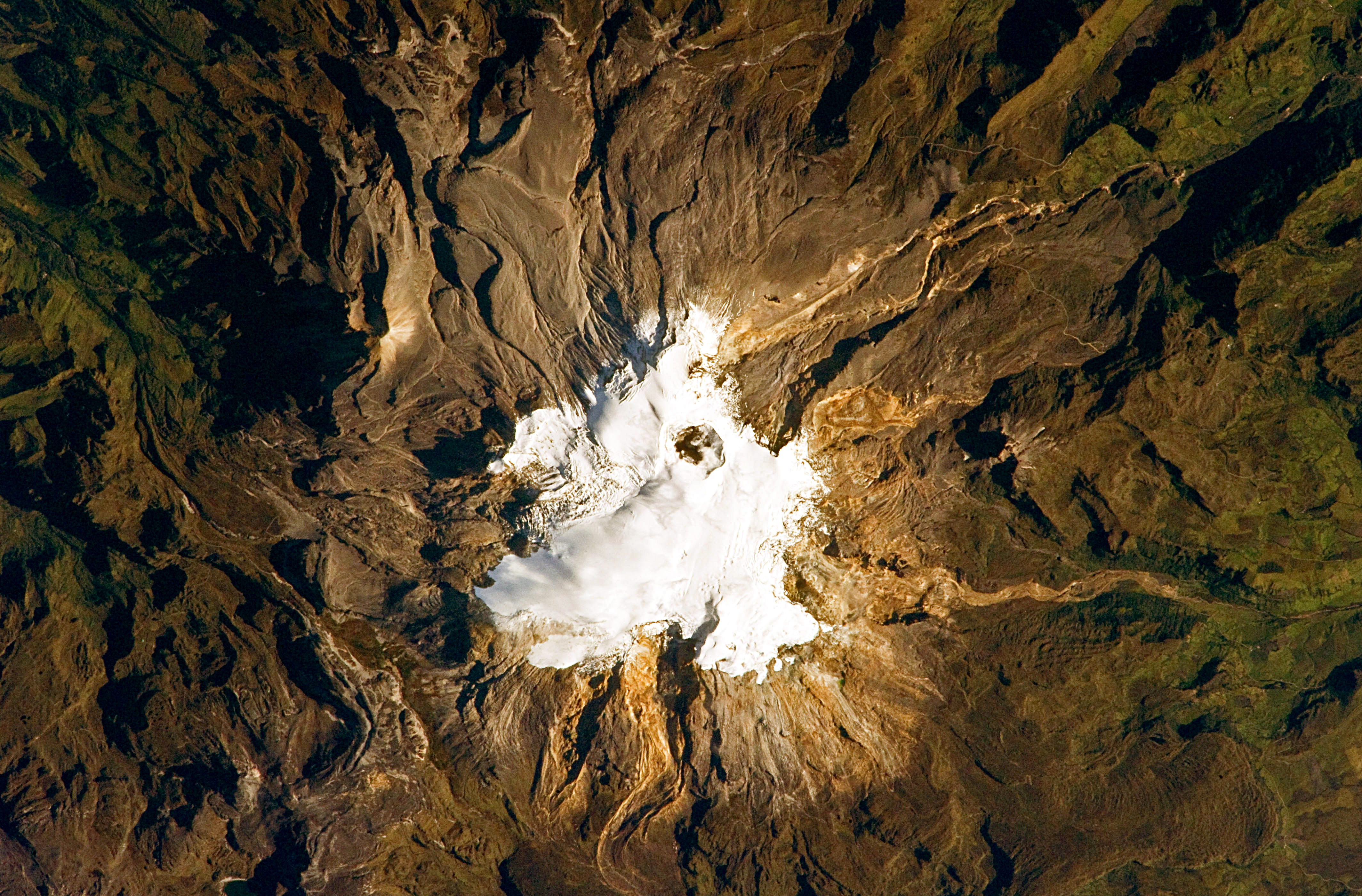 In this photo, the volcano’s summit and upper flanks are covered by several glaciers that appear as a white mass surrounding the 1-kilometre-wide Arenas Crater; melt-water from these glaciers has incised the grey to tan ash and pyroclastic flow deposits mantling the lower slopes. A well-defined lava flow is visible at image lower right. This astronaut photograph was taken at approximately 7:45 a.m. local time, when the Sun was still fairly low above the horizon, leading to shadowing to the west of topographic high points.